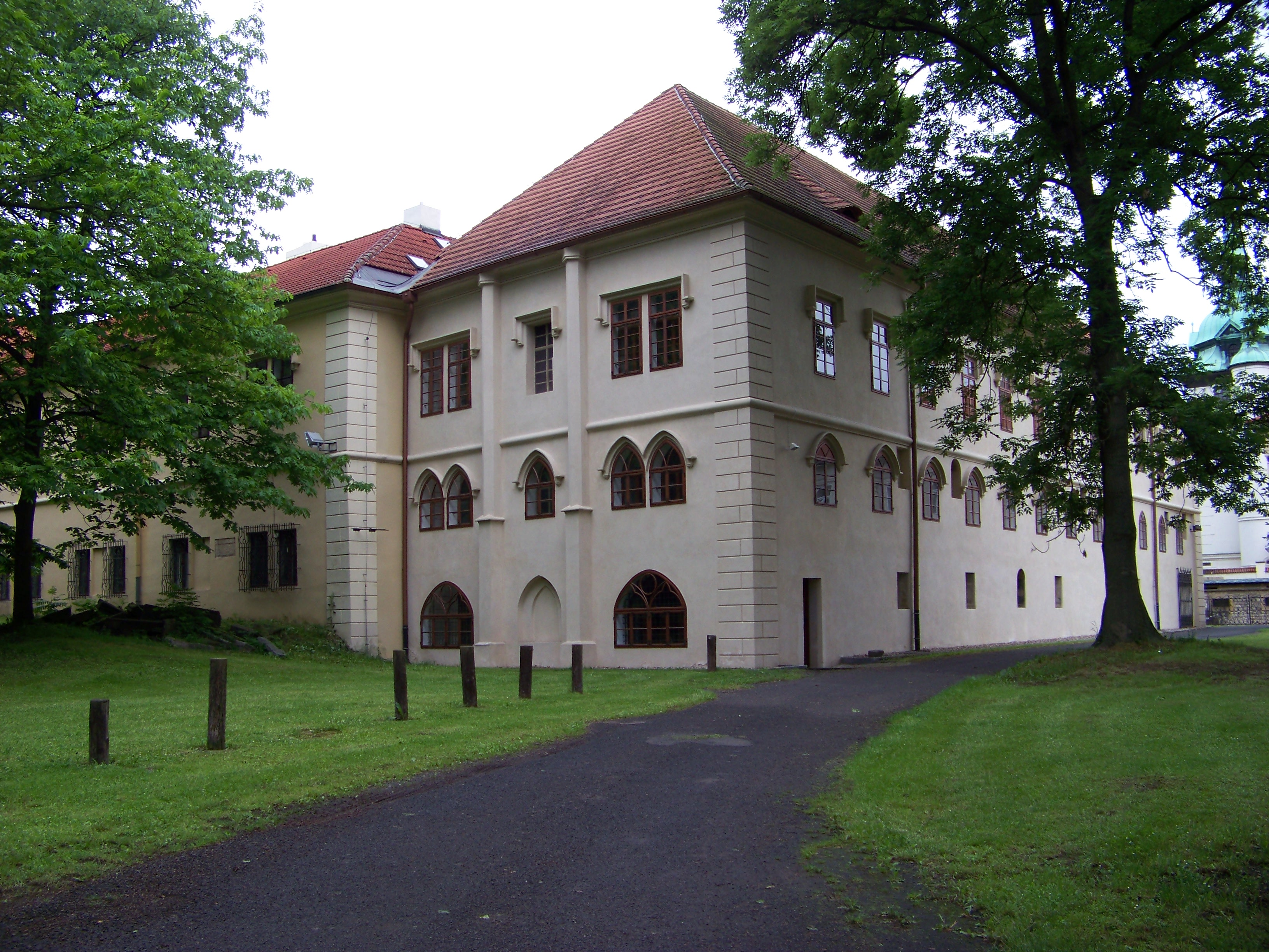 Teplice, Teplice District, Ústí nad Labem Region, Czech Republic. The castle.